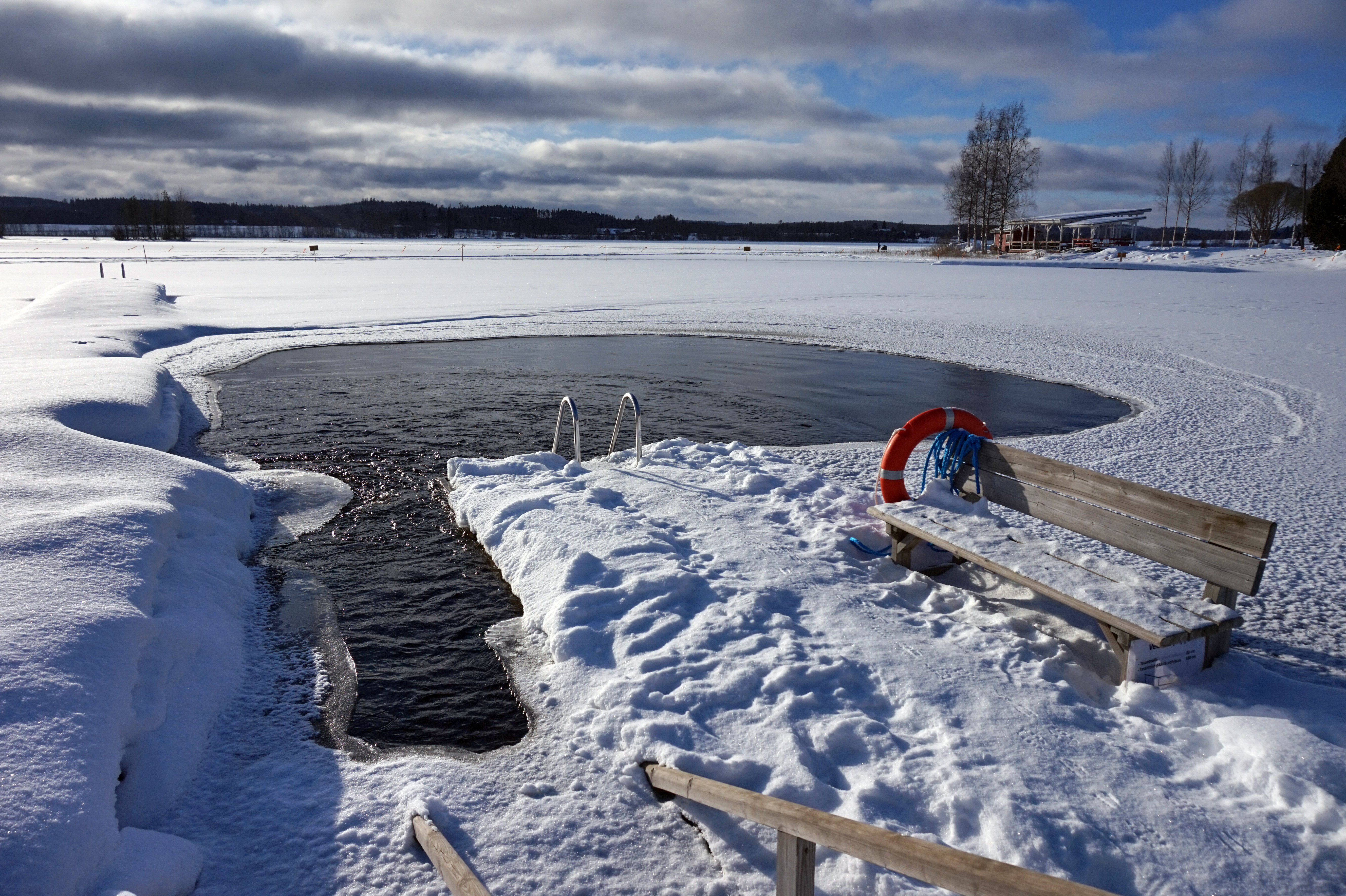 Ice hole for ice swimming in Peurunka, Laukaa.